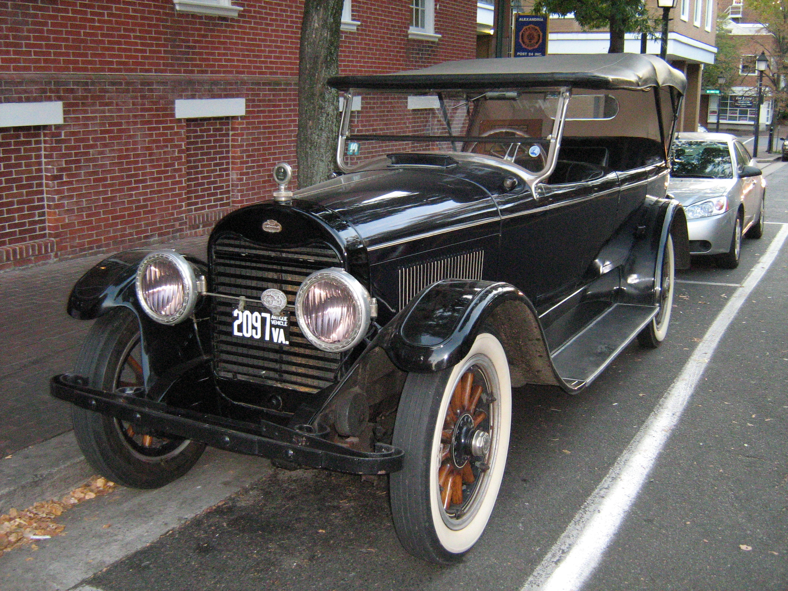 1922 Lincoln - touring automobile - picture taken in Alexandria, Virginia